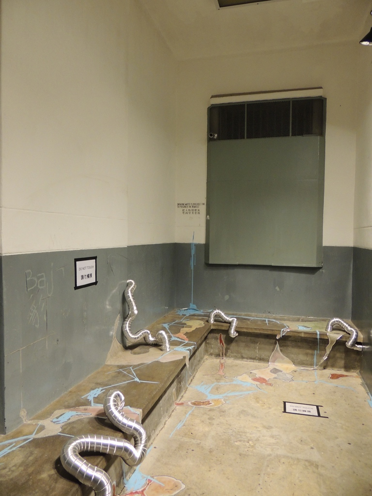 Wanchai Police Station 2012 openday